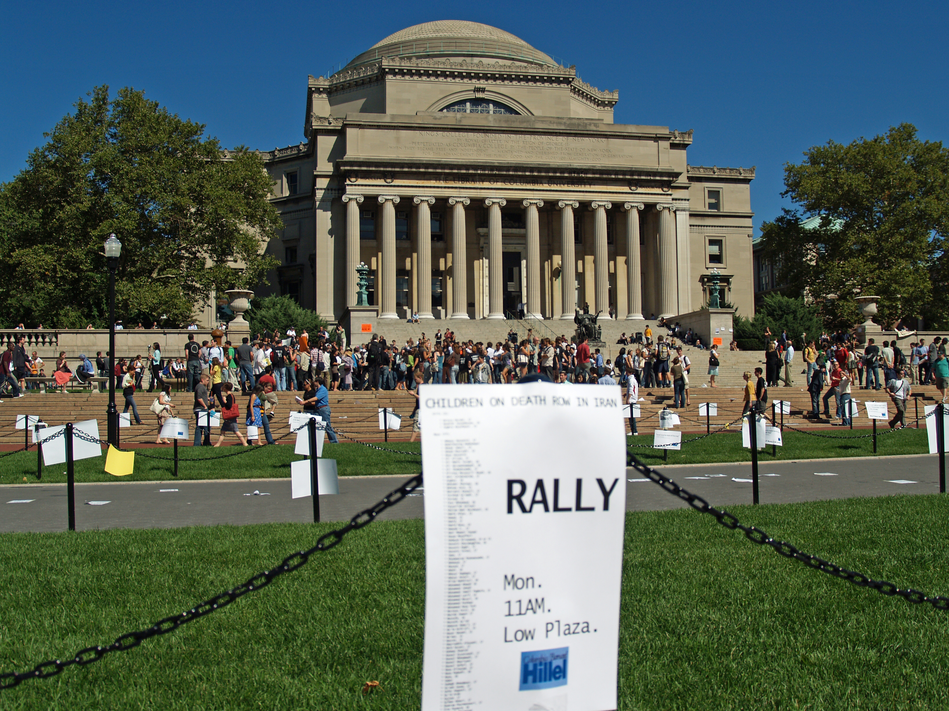 Mahmoud Ahmadinejad at Columbia by David Shankbone